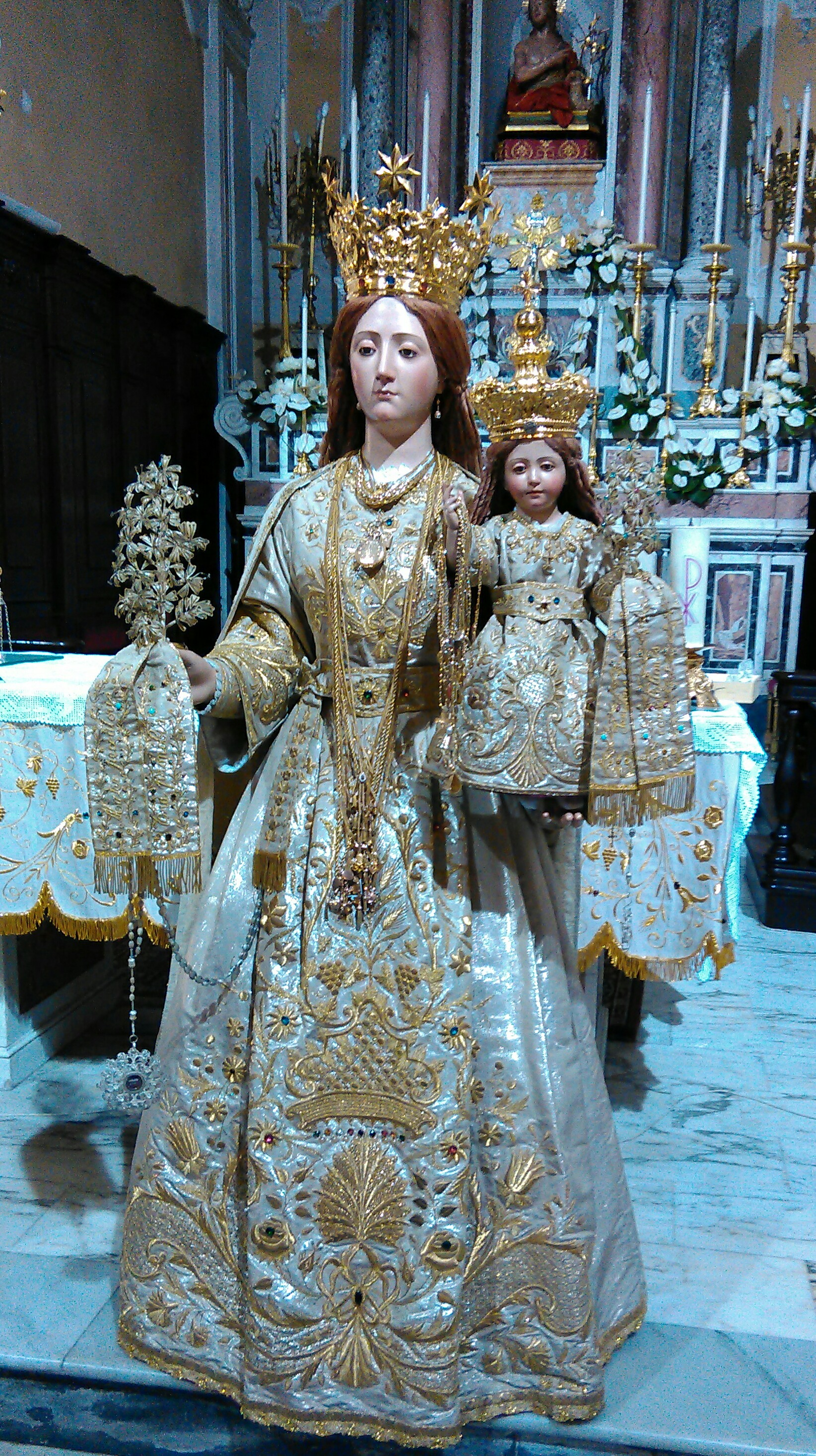 Virgin Mary of Massaquano